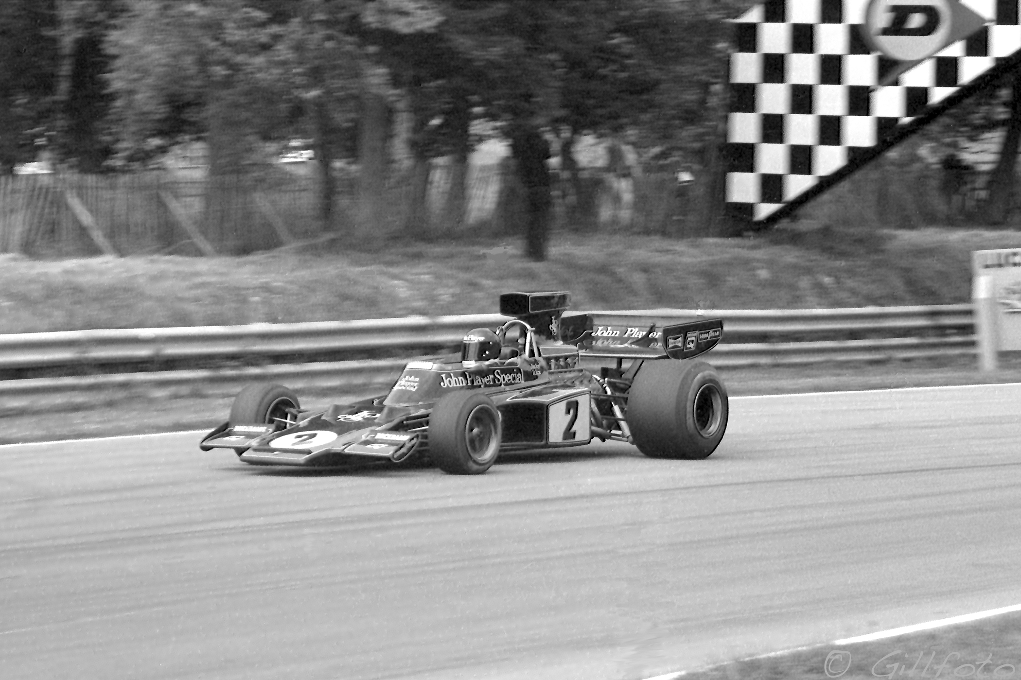 Jacky Ickx approaches Druids (finished 3rd), John Player Grand Prix, Brands Hatch (GB) 1974